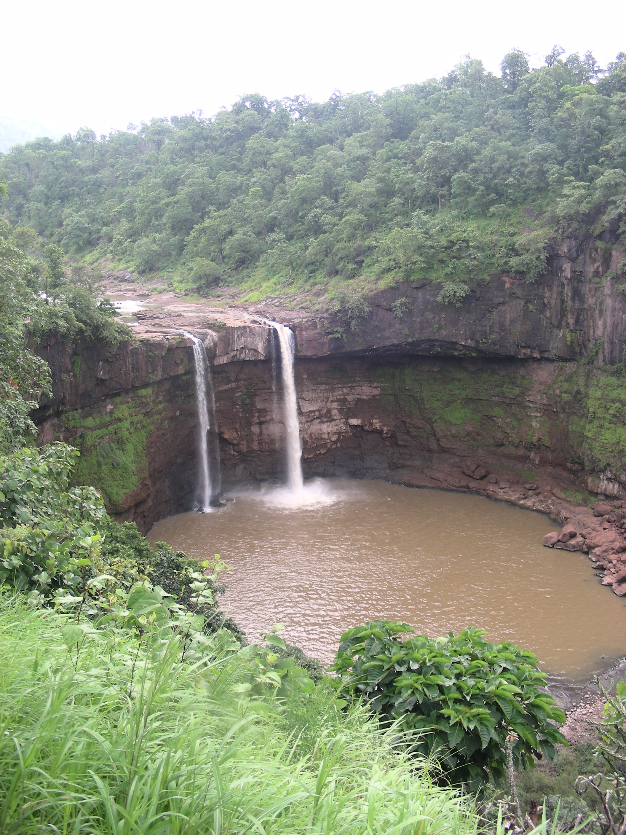 Gira falls in dang district of gujarat is highest falls in Gujarat